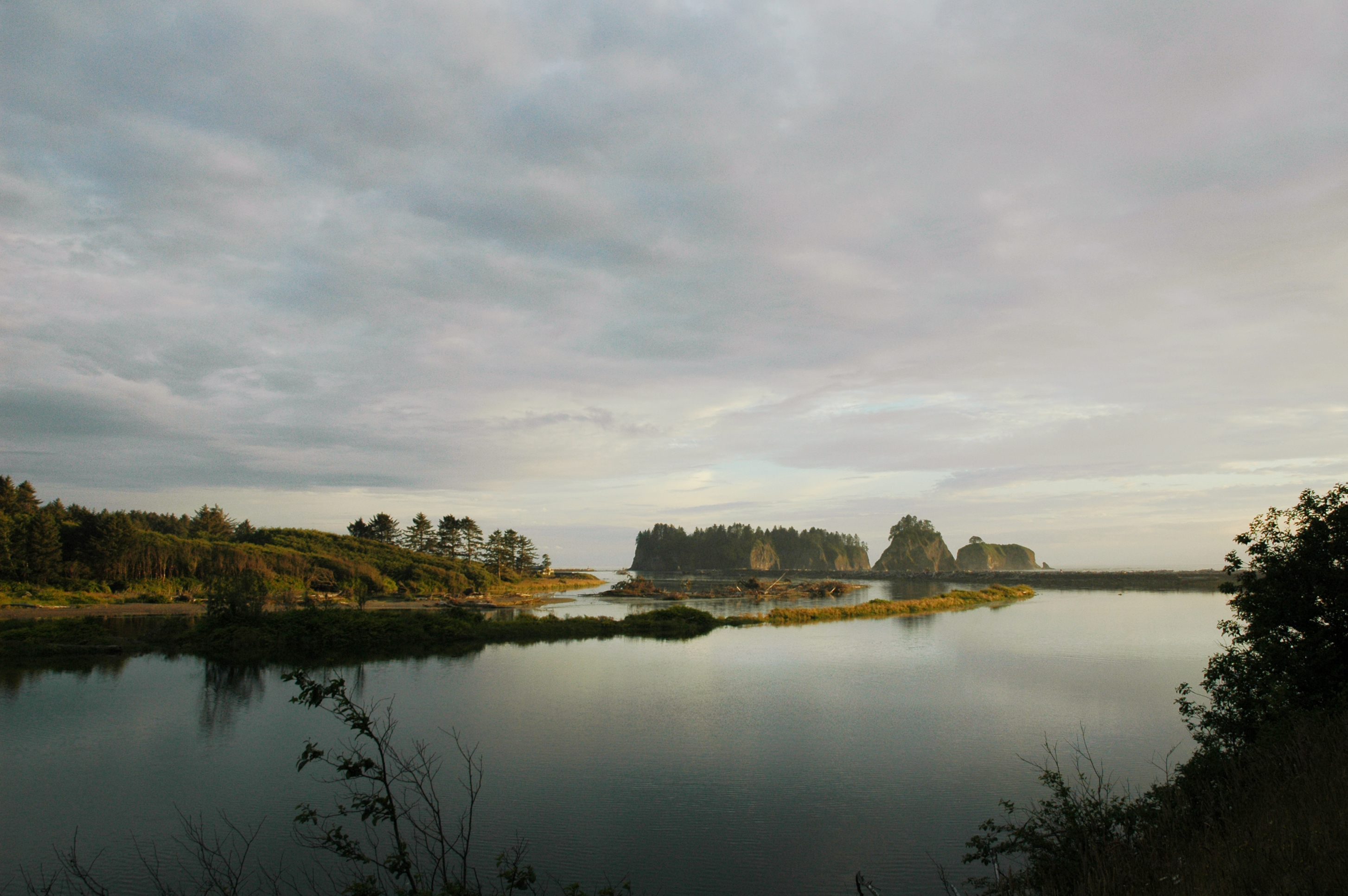 View of James Island and the Quillayute River near its mouth in the Pacific Ocean, seen from Mora Road